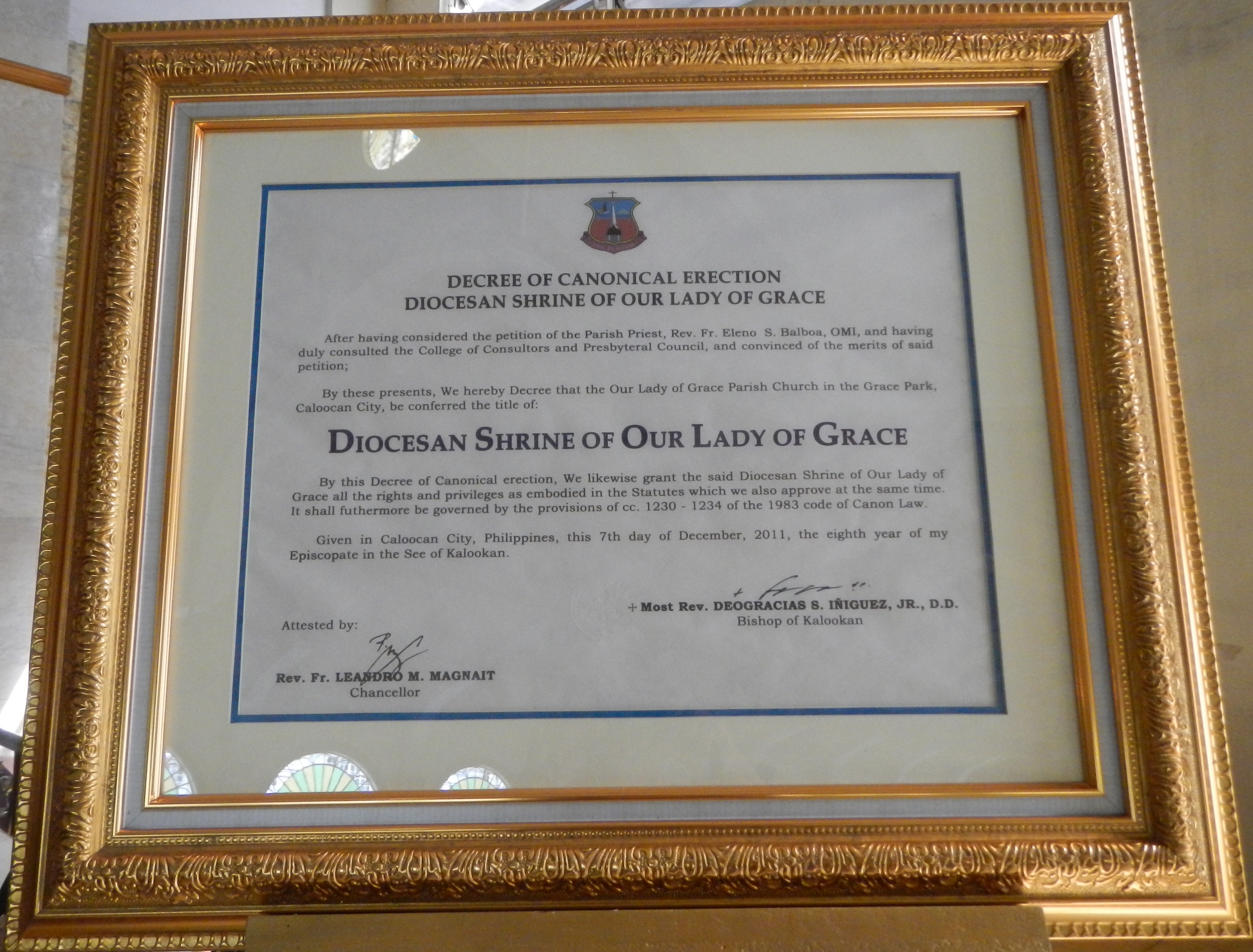 Decree of Canonical Erection Vicariate of Our Lady of Grace Diocesan Shrine of Our Lady of Grace (Grace Park)[1] Roman Catholic Diocese of Kalookan[2]